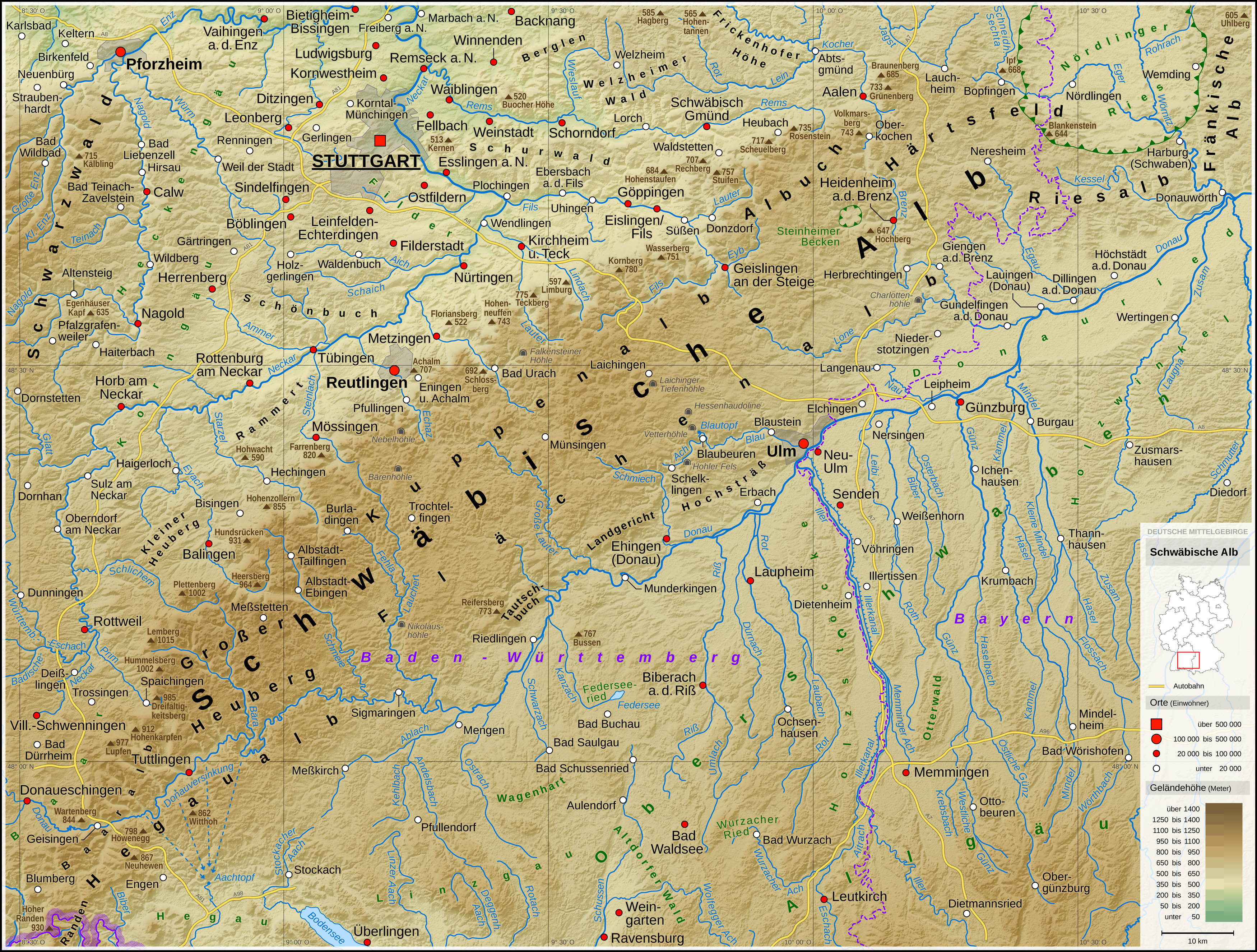 Topographic map of the Swabian Jura